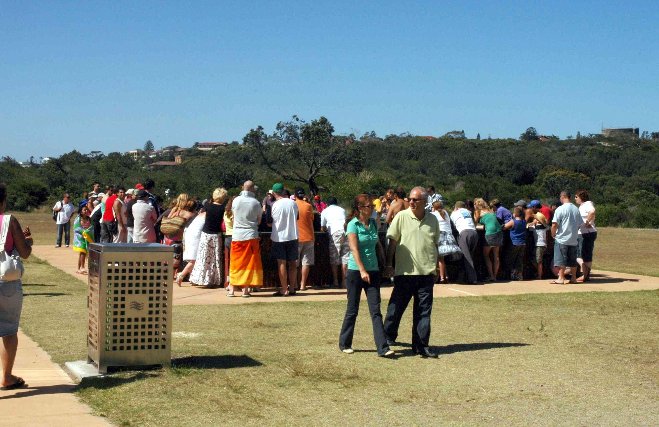 The snake pit, La Perouse, Sydney Australia